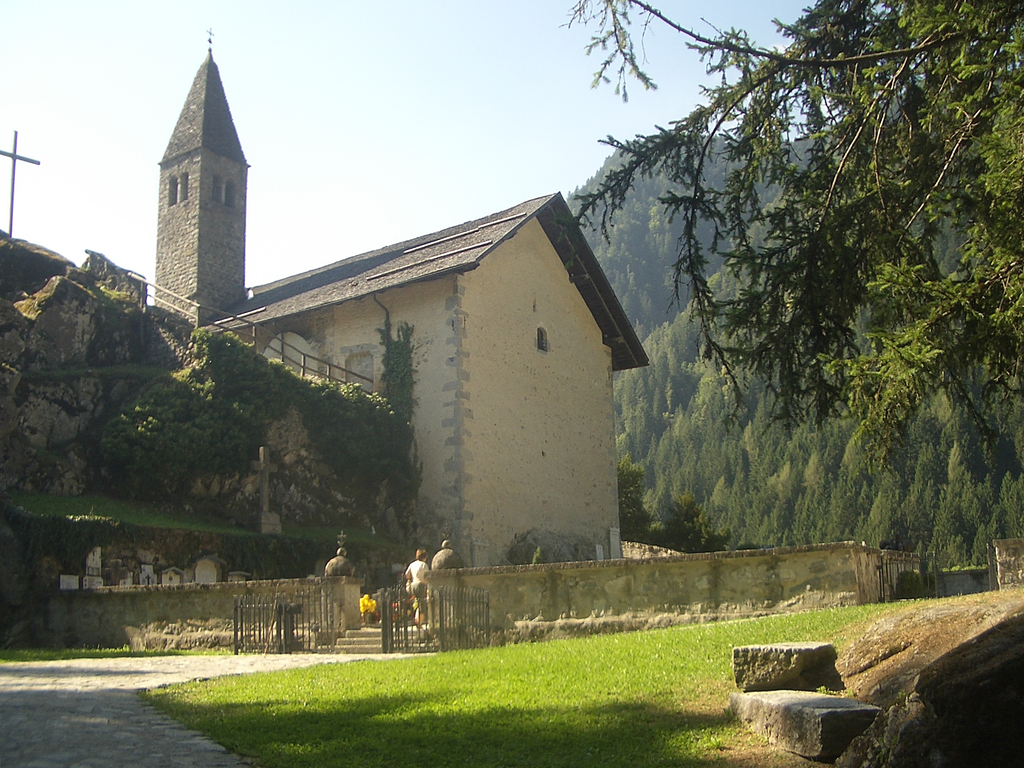 Carisolo, the old church dedicated to Saint Stephen